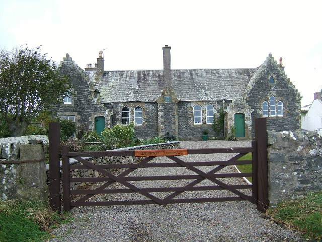 The old schoolhouse at Clachanmore, Ardwell, Stoneykirk, Wigtownshire. The old schoolhouse situated at Clachanmore crossroads near Ardwell is the former schoolhouse for Ardwell. It was recently used as an Art gallery, but has since closed and is now a private house.